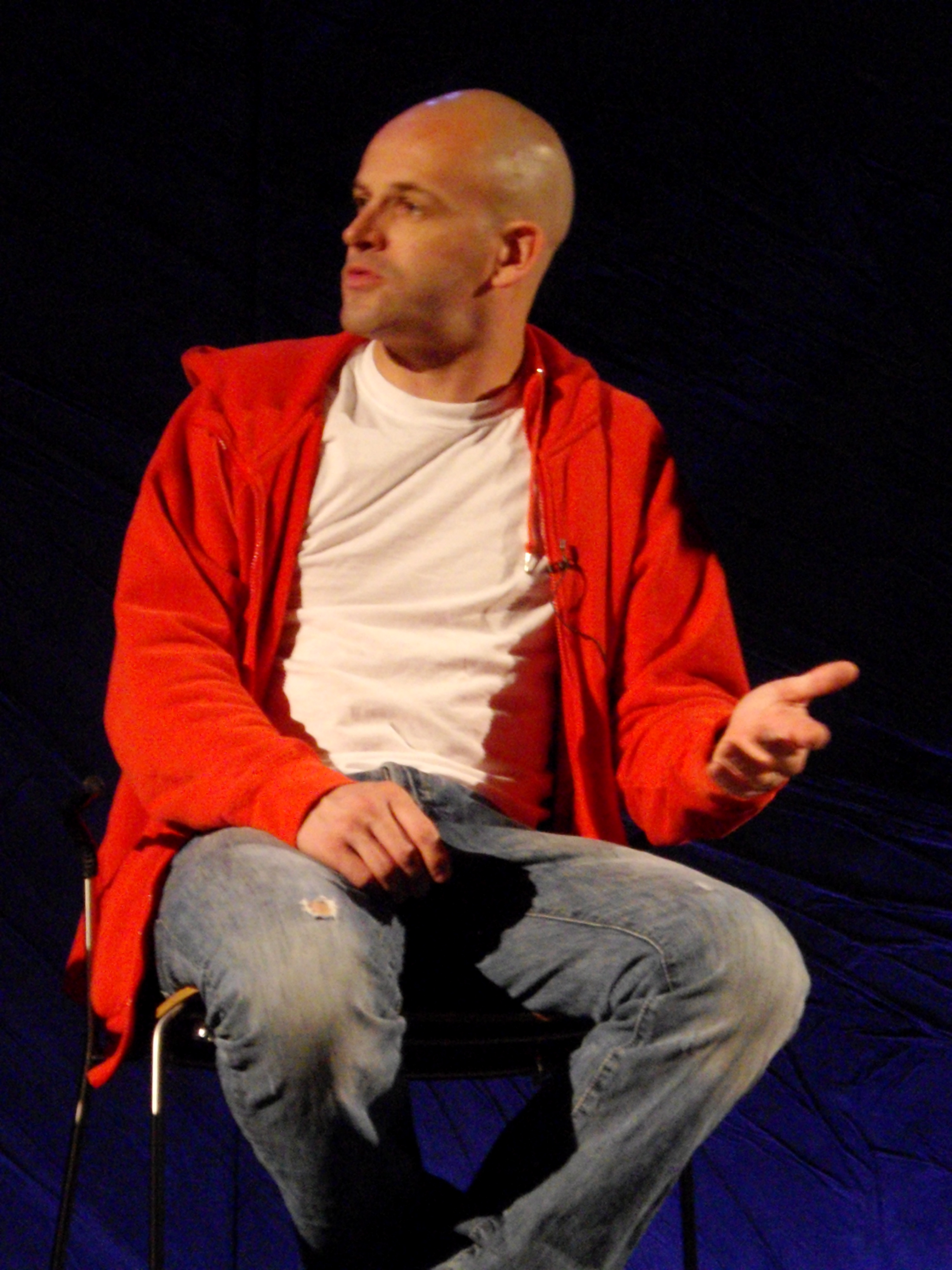 Jonny Lee Miller at Frankenstein Q&A at the National Theatre